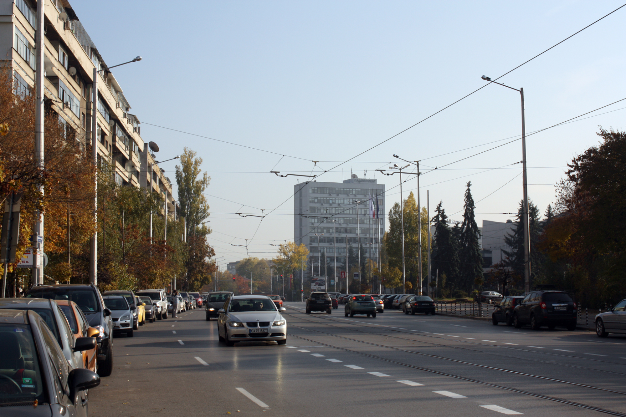 Shipchenski Prohod Blvd, Sofia, Bulgaria